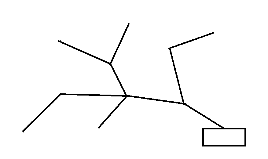 A schematic sketch of a distribution network for water